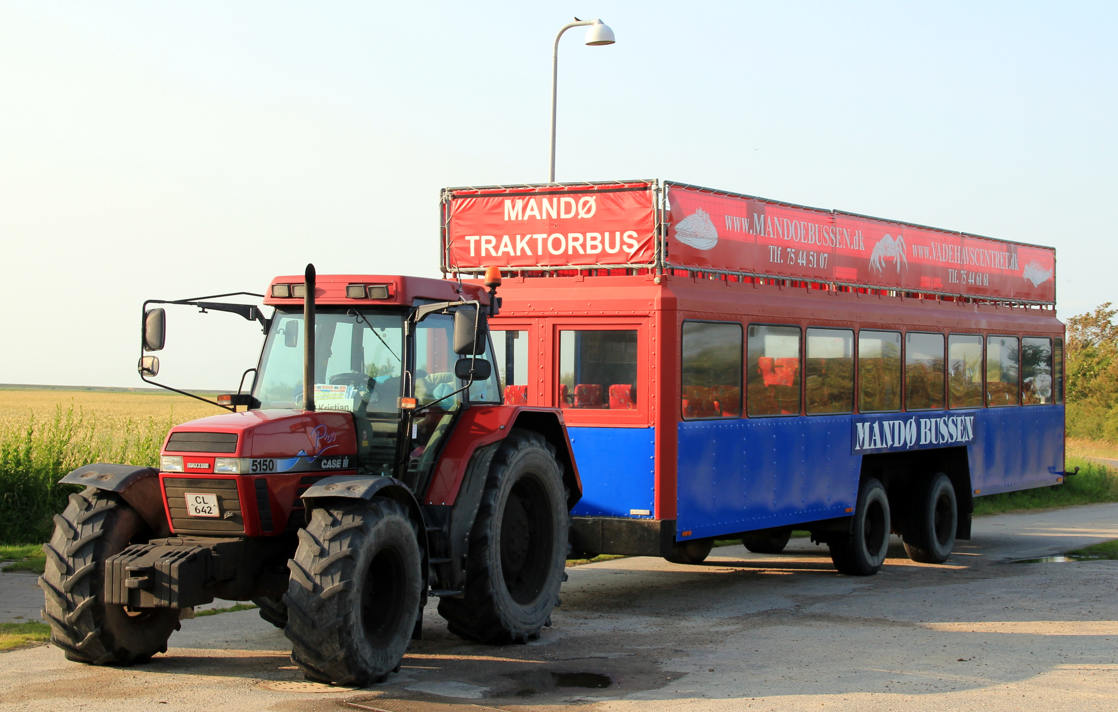 The tractor bus to Mandø